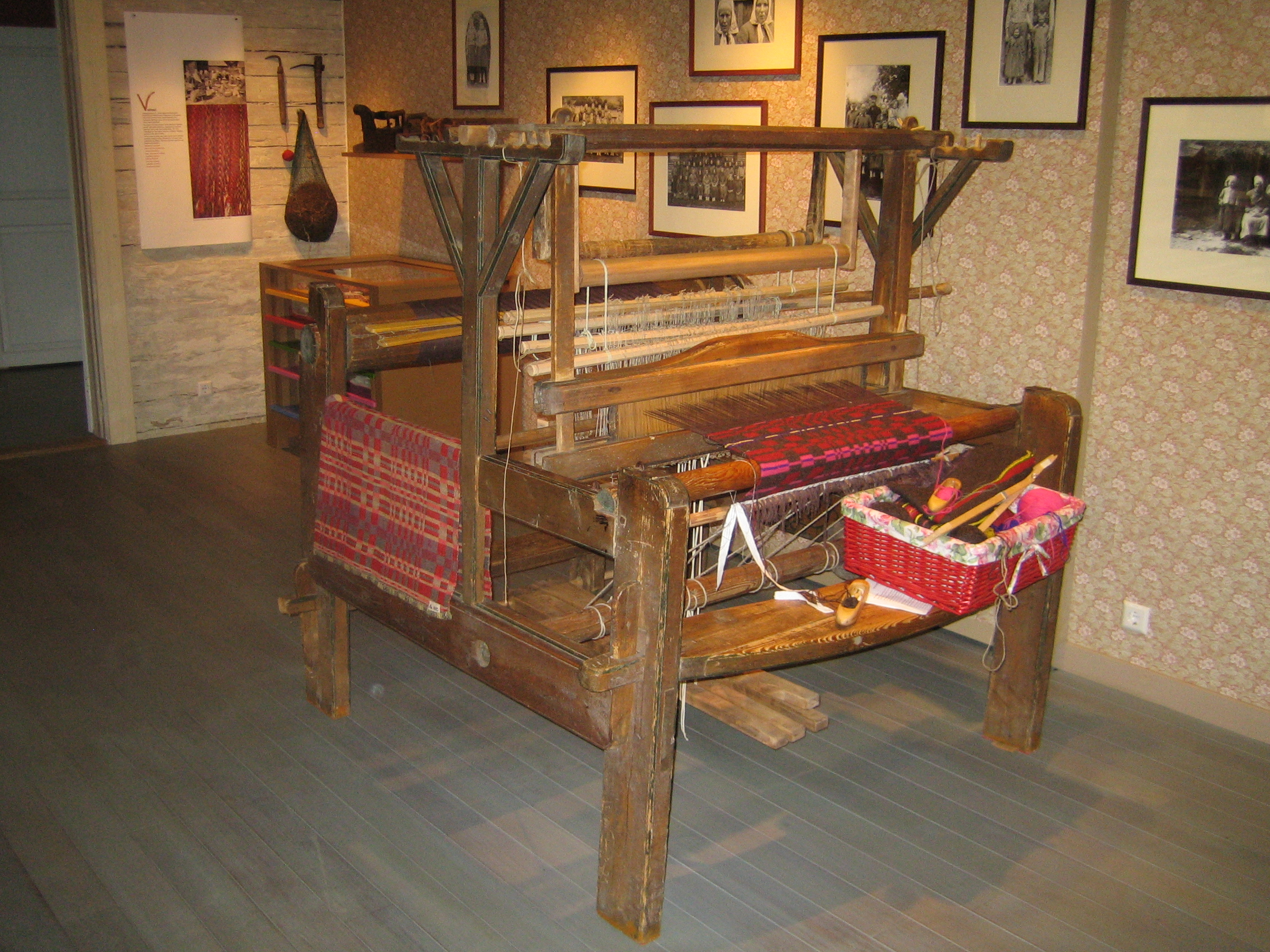 Handloom in Kihnu museum, EstoniaEesti: Kangasteljed Kihnu muuseumis